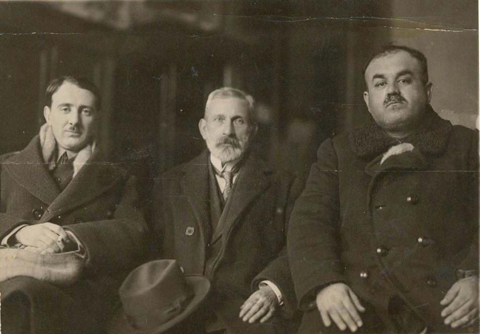 Kopruluzade, Huseynzade and Mumtaz. First Turkologic Kurultay (congress) in Baku.